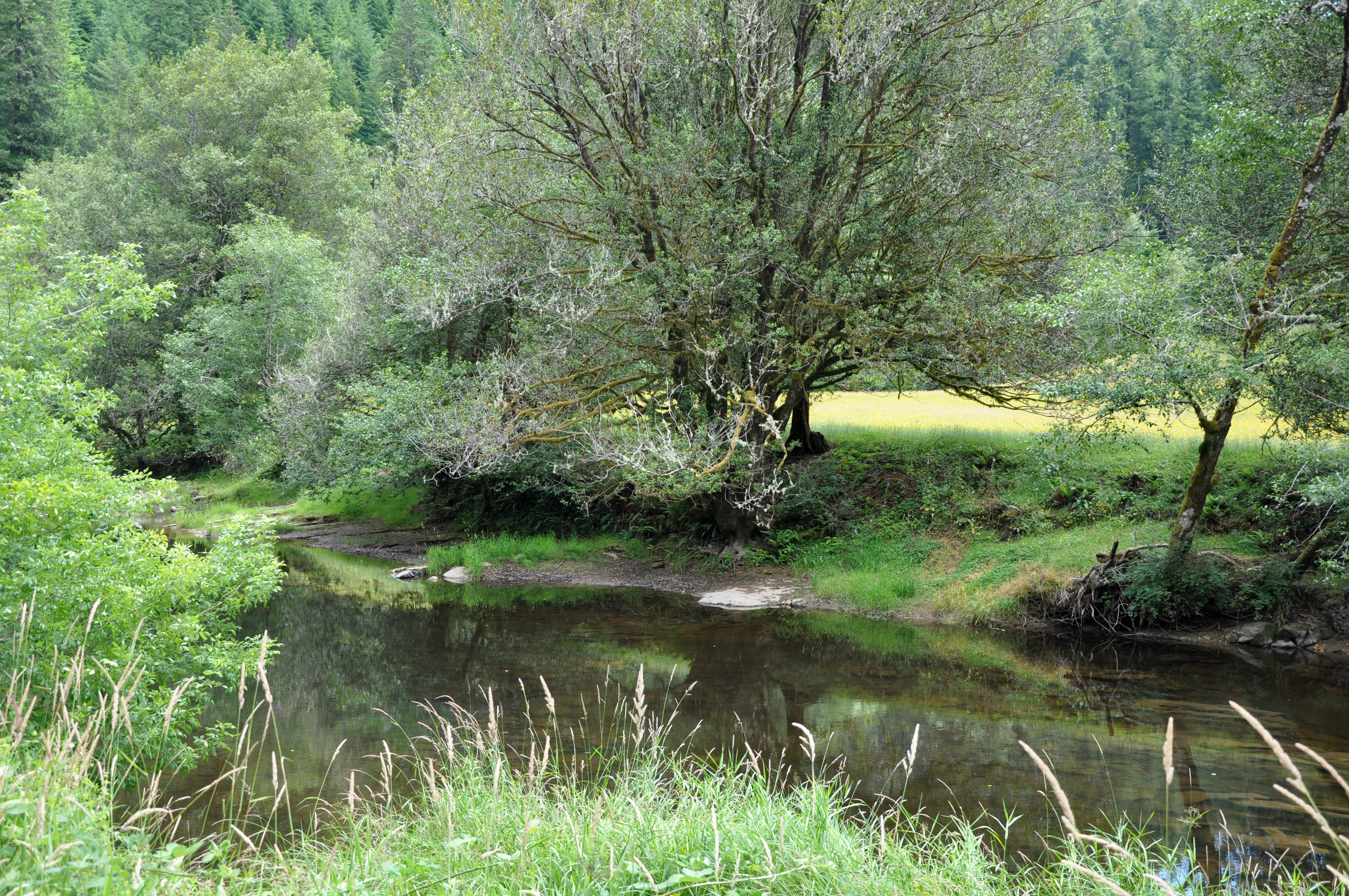 East Fork Millicoma River above Allegany in the U.S. state of Oregon. View is from Oregon Route 241 downstream of Nesika County Park.